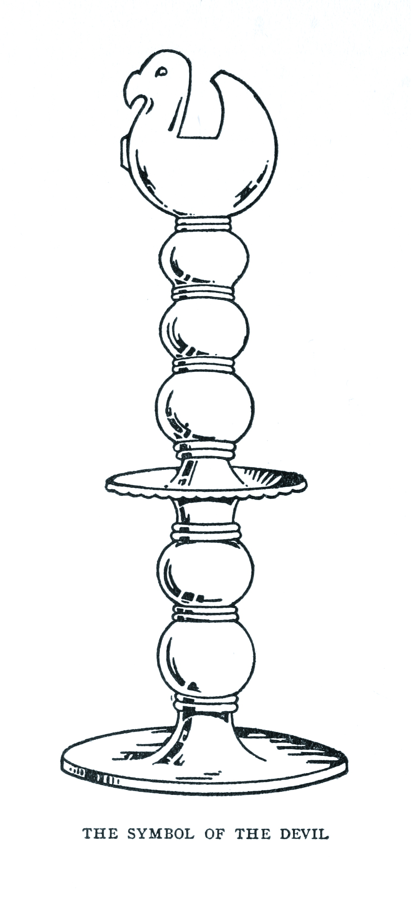 Devil Worship: The Sacred Books and Traditions of the Yezidiz